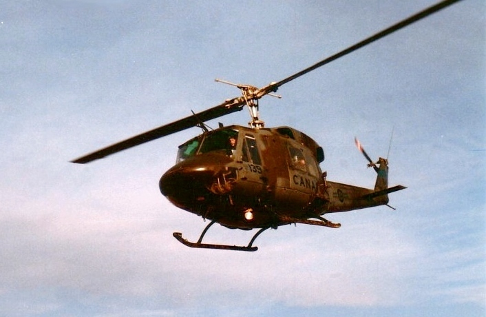 I took this photo of a 408 Squadron CH-135 Twin Huey 135139 at Ex Rendezvous 85